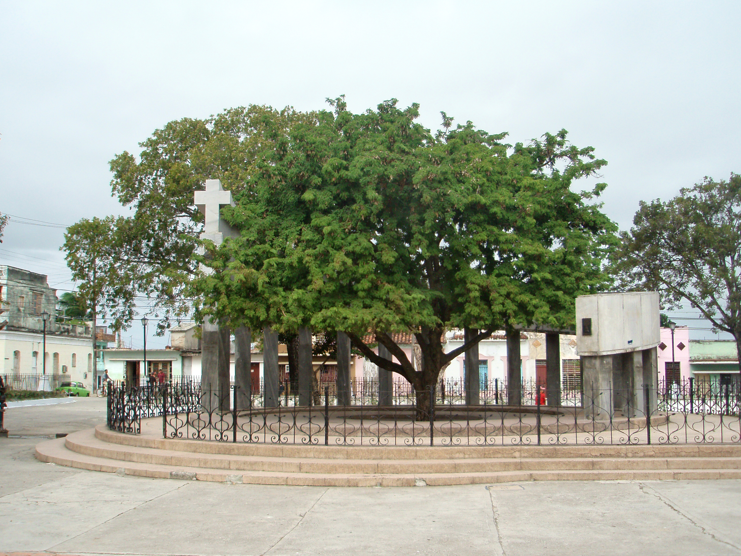 Tamarind on a place of the foundation of city Santa Clara, Cuba (where there has passed the first church service)